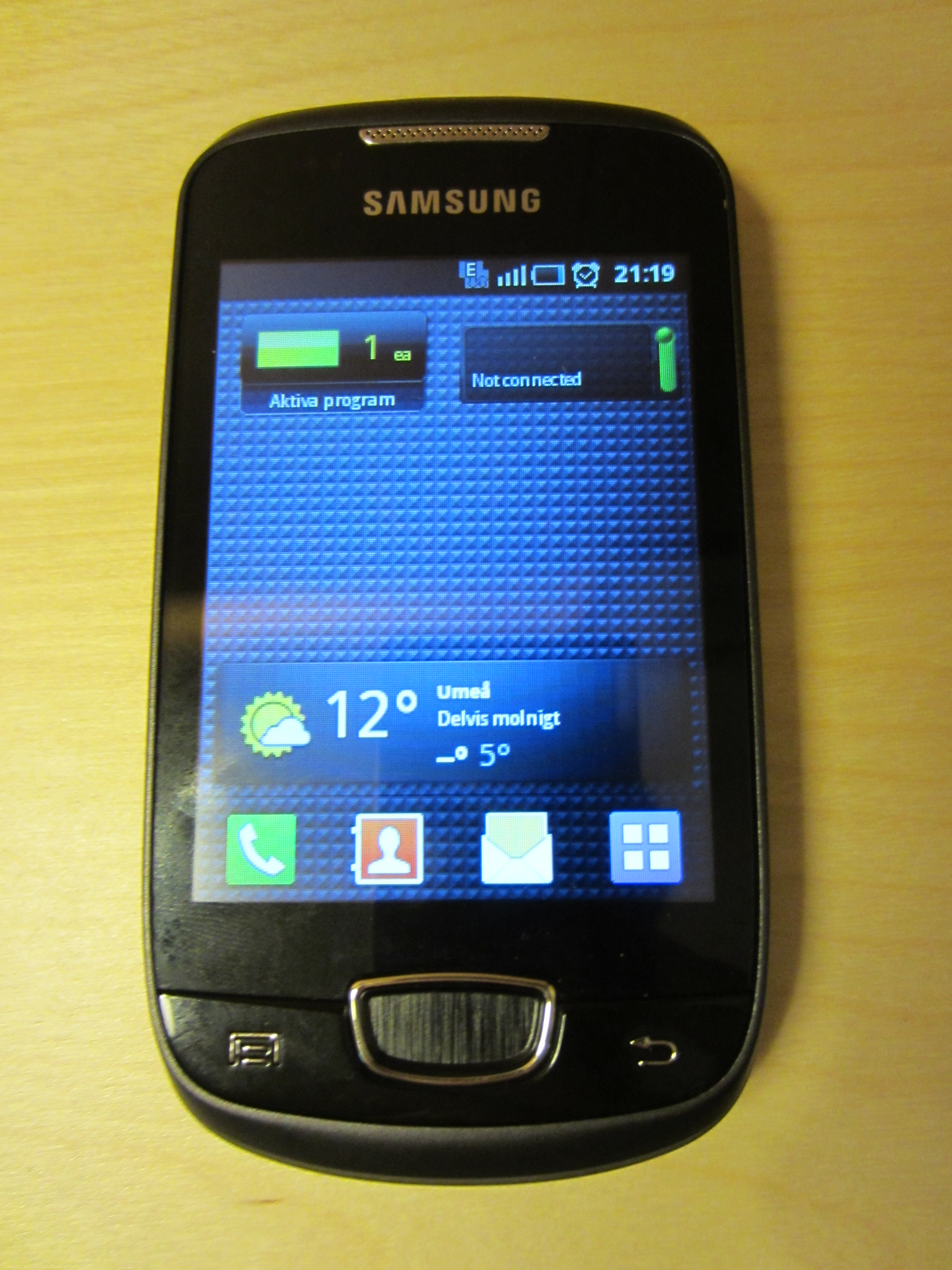 Samsung Galaxy Mini (S5570)